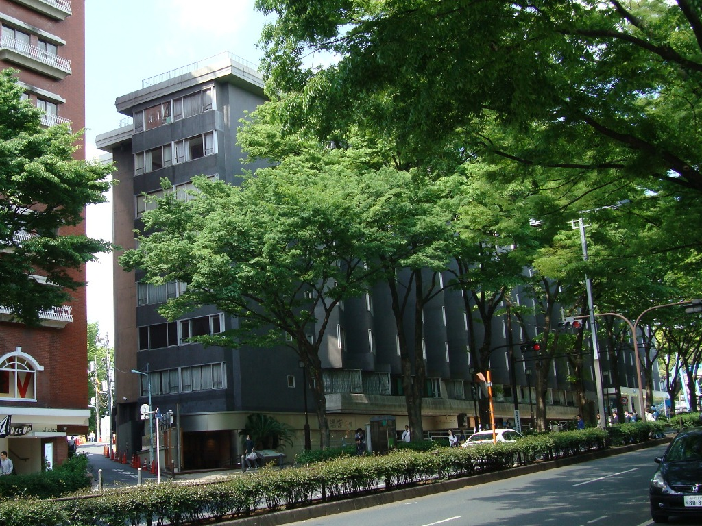 The Co-op Olympia apartment building, Shibuya, Tokyo